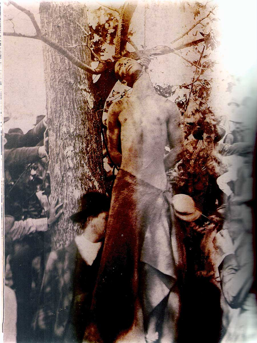 Image of the lynching of Frank Embree, Fayette, Missouri 1899